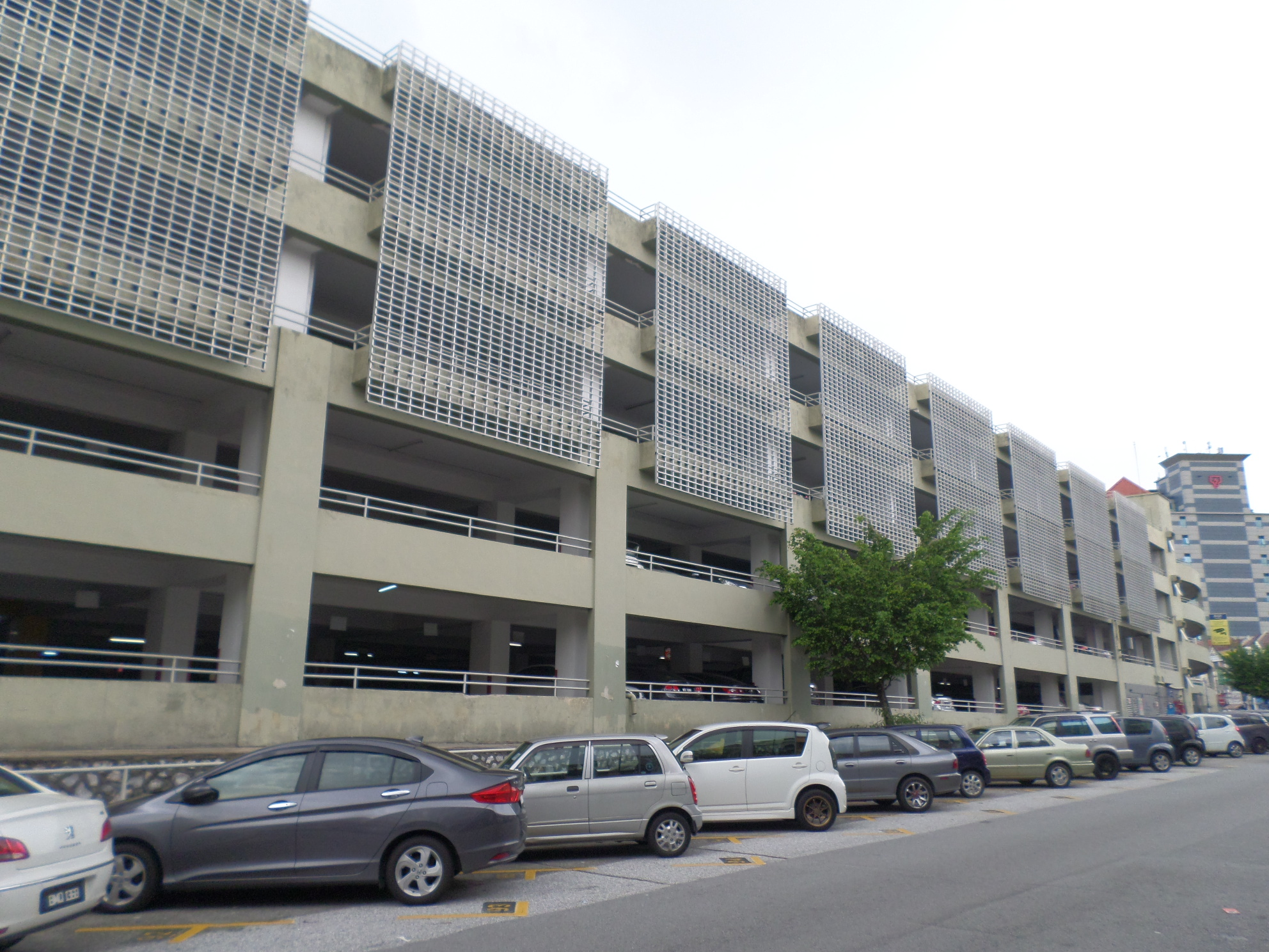 USJ Taipan Multi-storey Car Park, UEP Subang Jaya, Subang Jaya, Petaling, Selangor, Malaysia